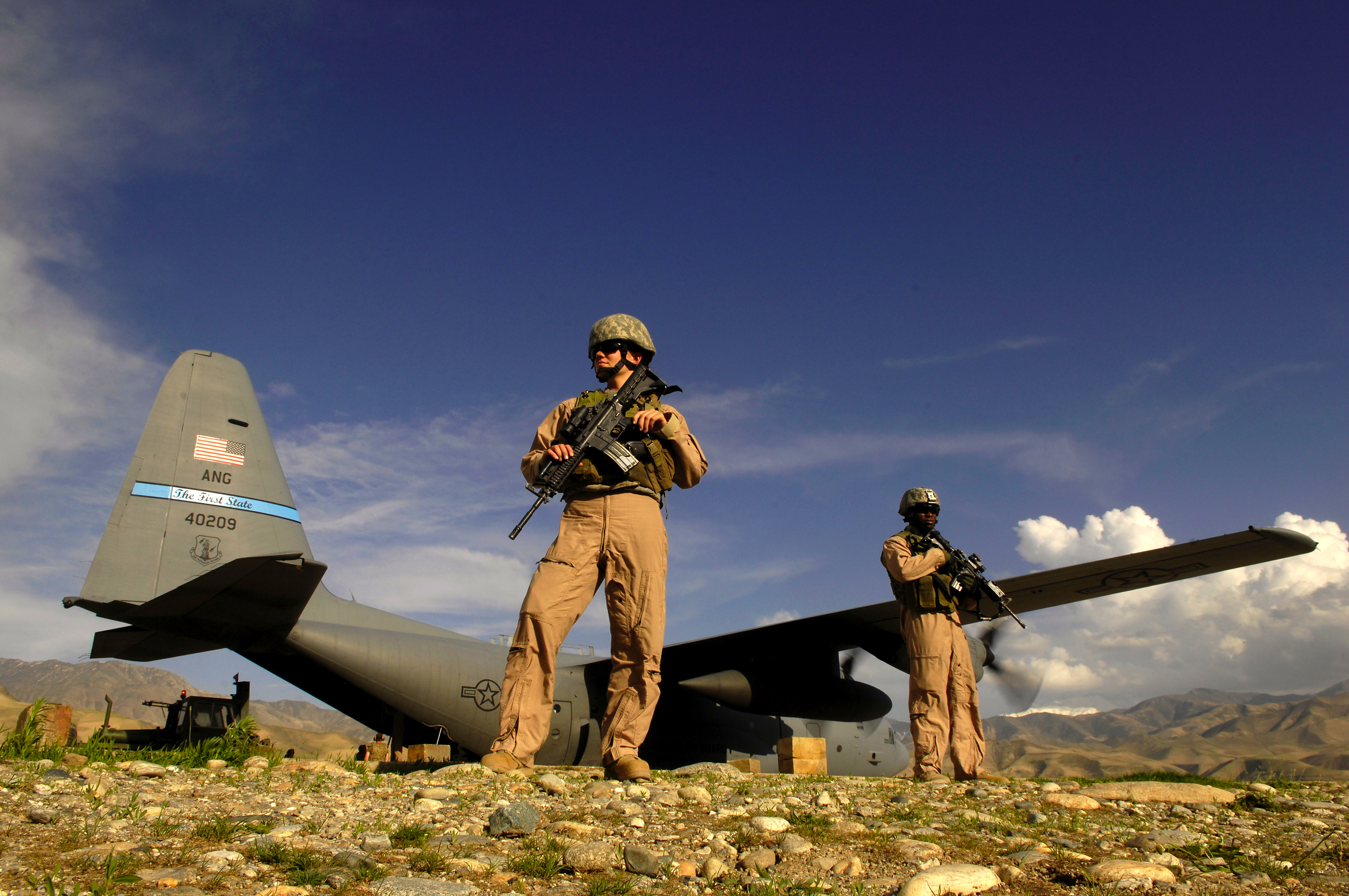 080423-F-2828D-267 U.S. Air Force Airman 1st Class Kelliea Guthrie and Senior Airman Greg Ellis, both part of a fly away security forces team assigned to the 455th Expeditionary Security Forces Squadron, provide security for a C-130 Hercules aircraft during a cargo mission at Feyzabad Airfield, Afghanistan, April 23, 2008. Guthrie is deployed from the 9th Security Forces Squadron out of Beale Air Force Base, California, and Ellis is deployed from the 355th Security Forces Squadron from Davis-Monthan Air Force Base, Arizona.